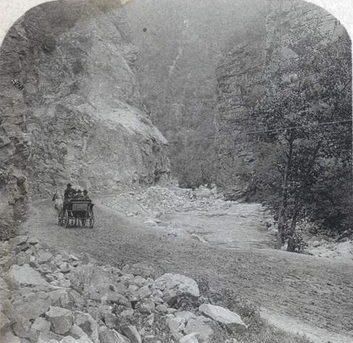 Chepino Gorge, Bulgaria